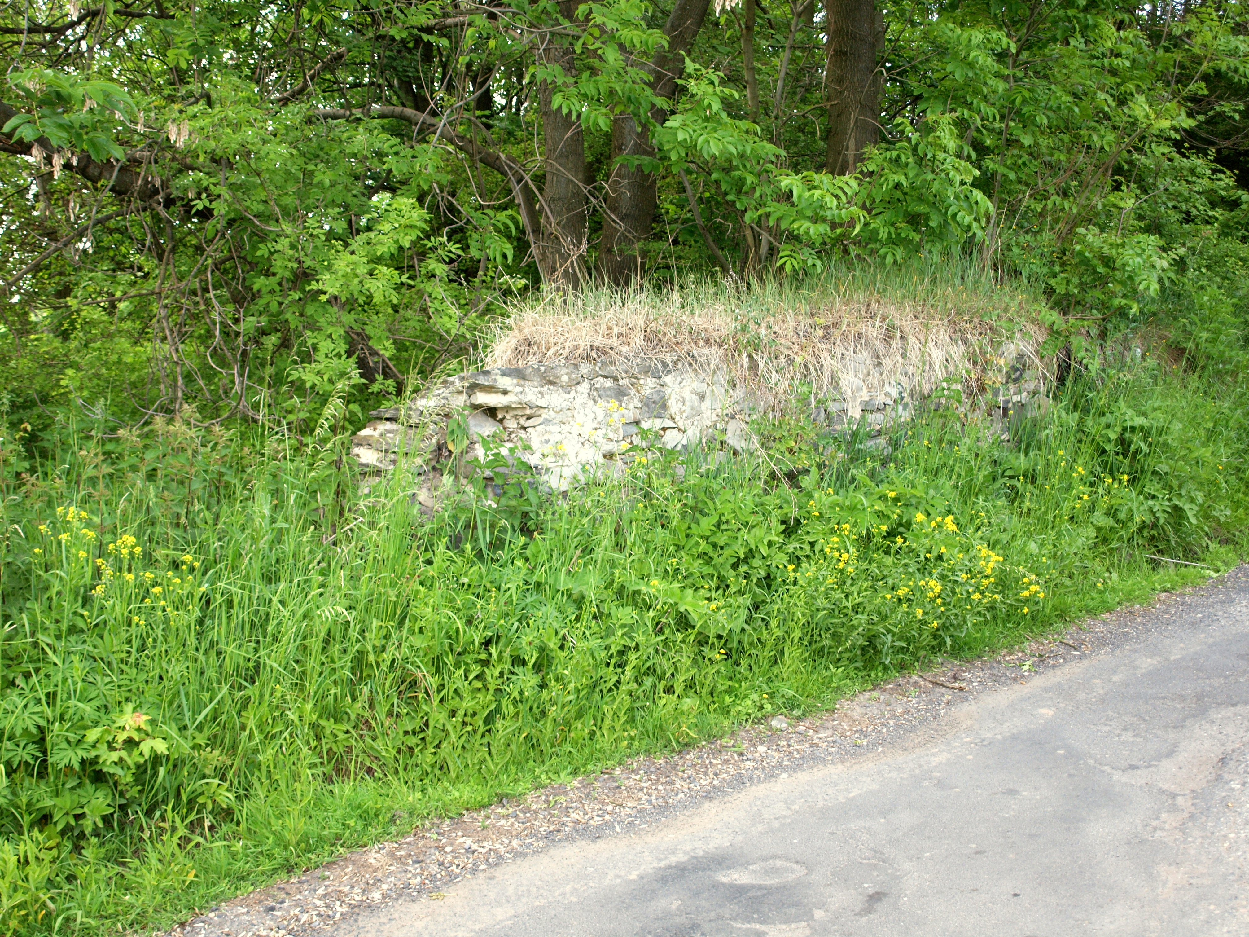 Babiny I.